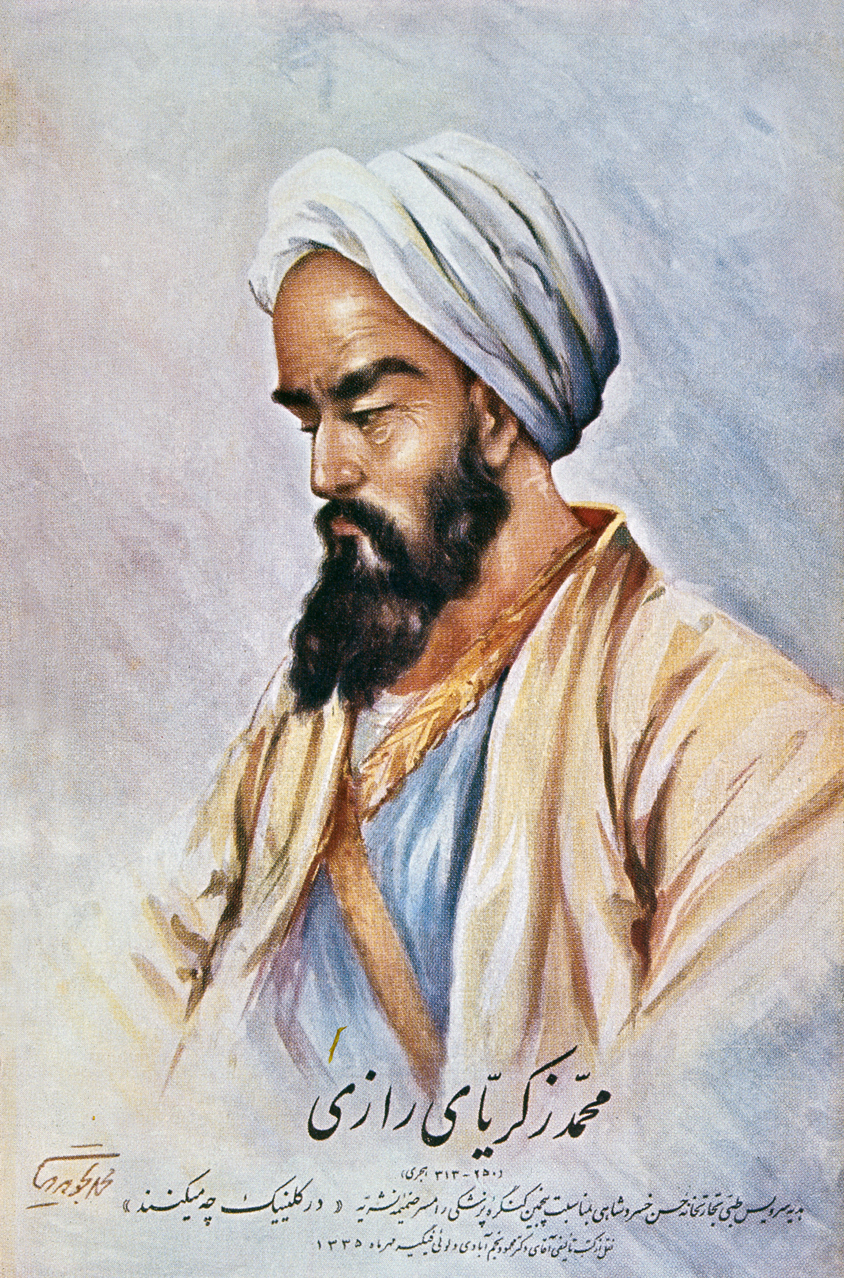 Portrait of Rhazes (al-Razi) (AD 865 - 925) physician and alchemist who lived in Baghdad Wellcome Images Keywords: Rhazes